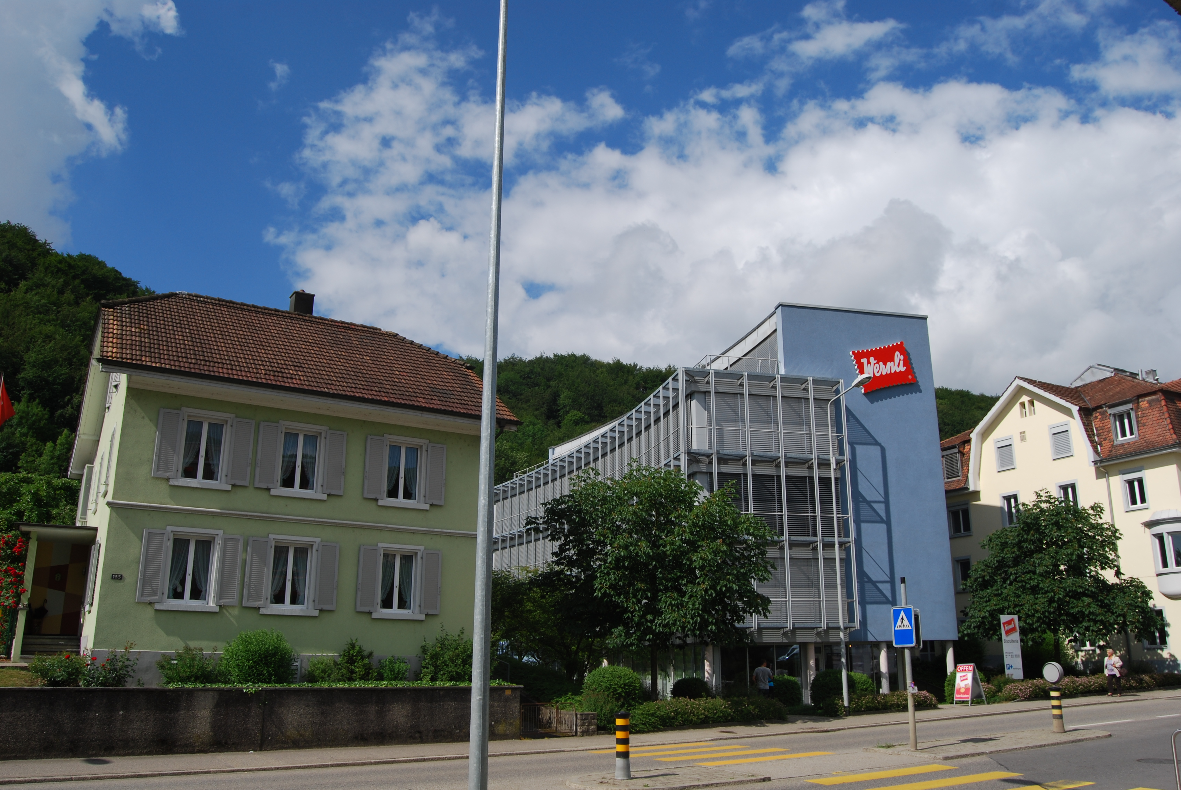 Trimbach, canton of Solothurn, Switzerland